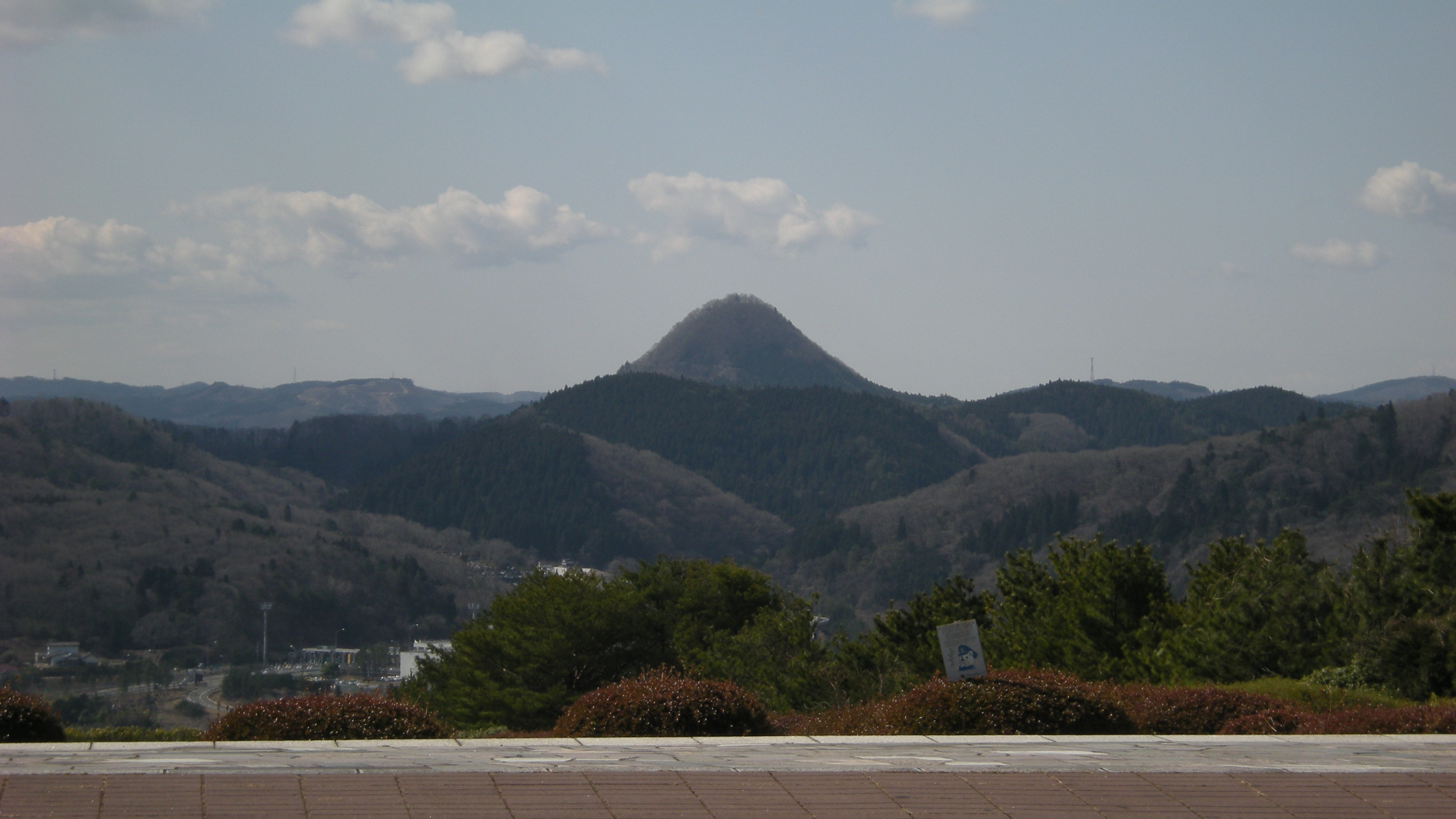 Mt. Taihakusan in Sendai city, Miyagi prefecture, Japan. Taken from Kuzuoka cemetery, that is located NNE of the mountain.